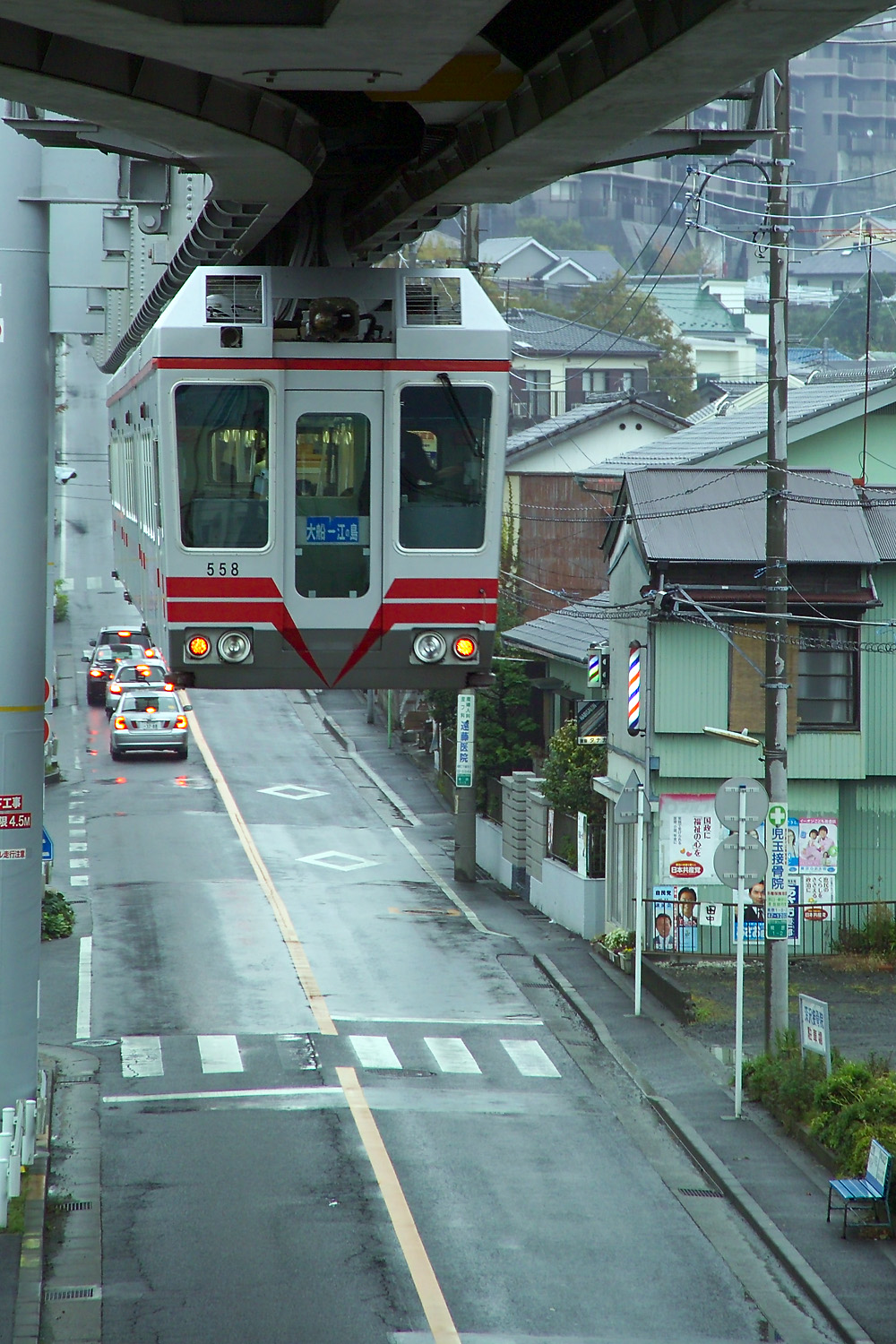 The Shonan Monorail 湘南モノレール in the cities of Fujisawa and Kamakura, Kanagawa Prefecture, Japan.